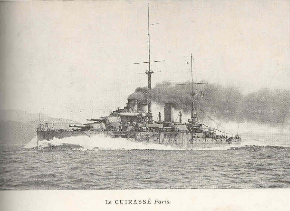 French battleship Paris